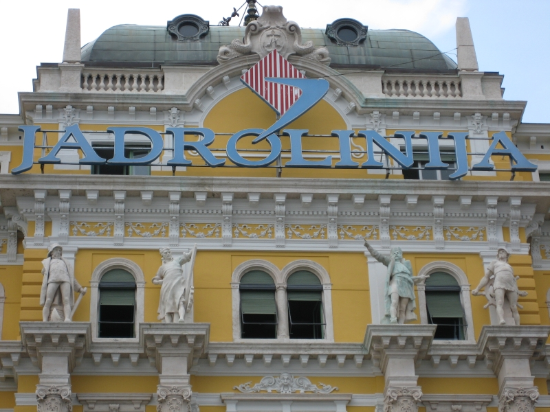 Palača Jadran, Jadrolinija, Rijeka, Croatia